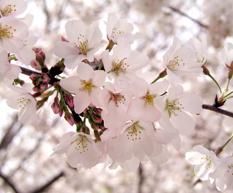 Cherry Blossom Flowers.